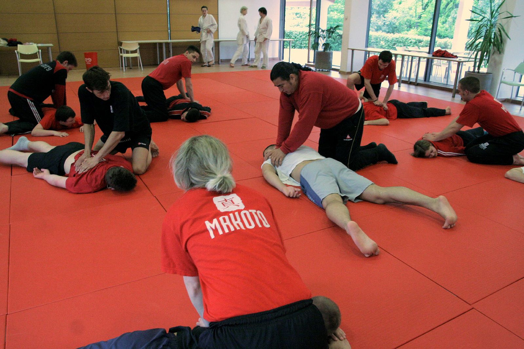 The Aikikai foundation of the Japanese martial art Aikido incorporates massage into their routine, in Slovenia.